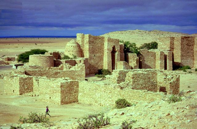 Ruins of Castle, Taleh Khatumo state, Somalia